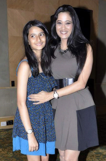 Shweta Tiwari (right) and her daughter Palak